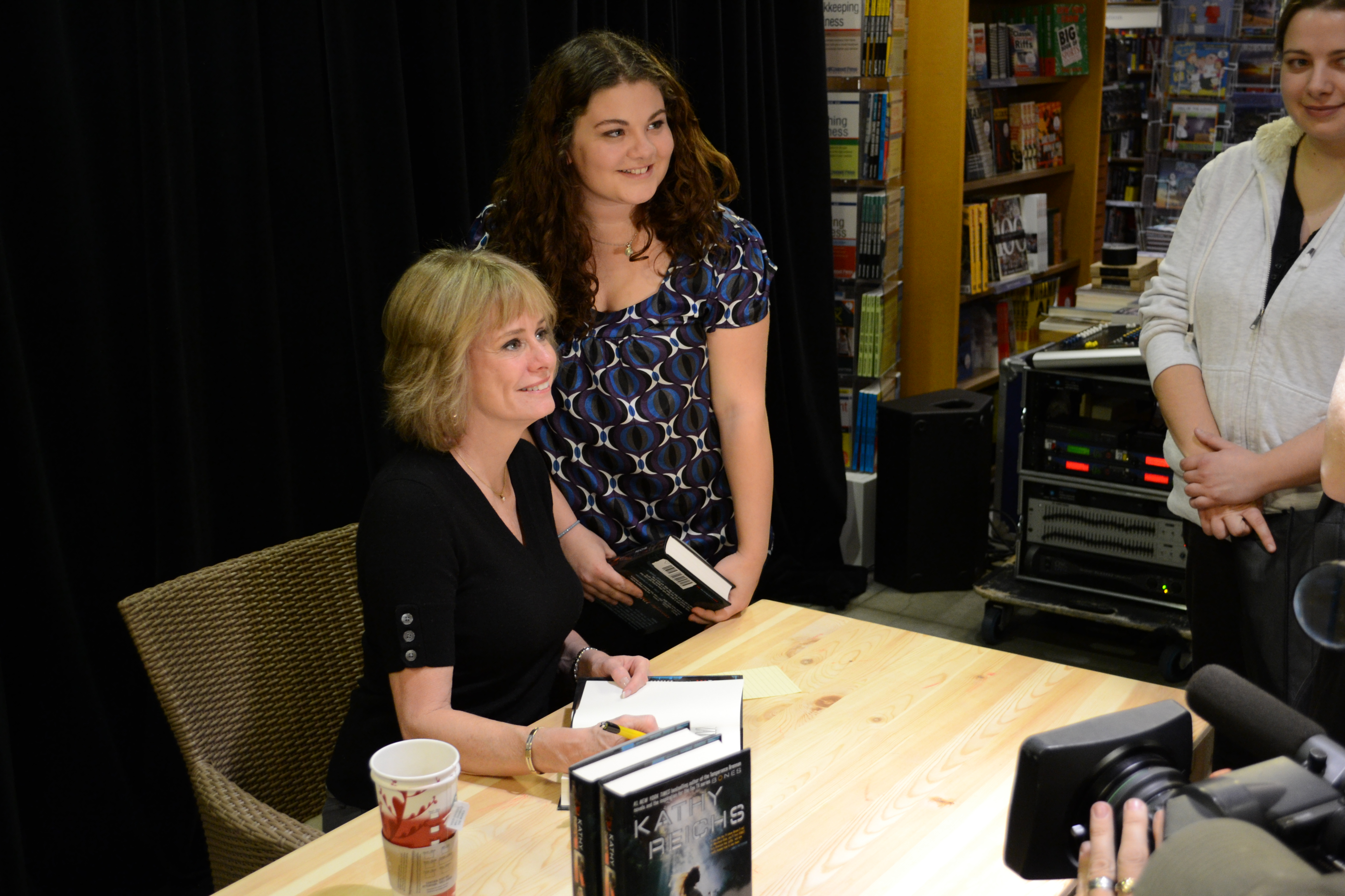 Kathy Reichs at Virals book signing event. Location: Indigo Yonge & Eglinton, Toronto